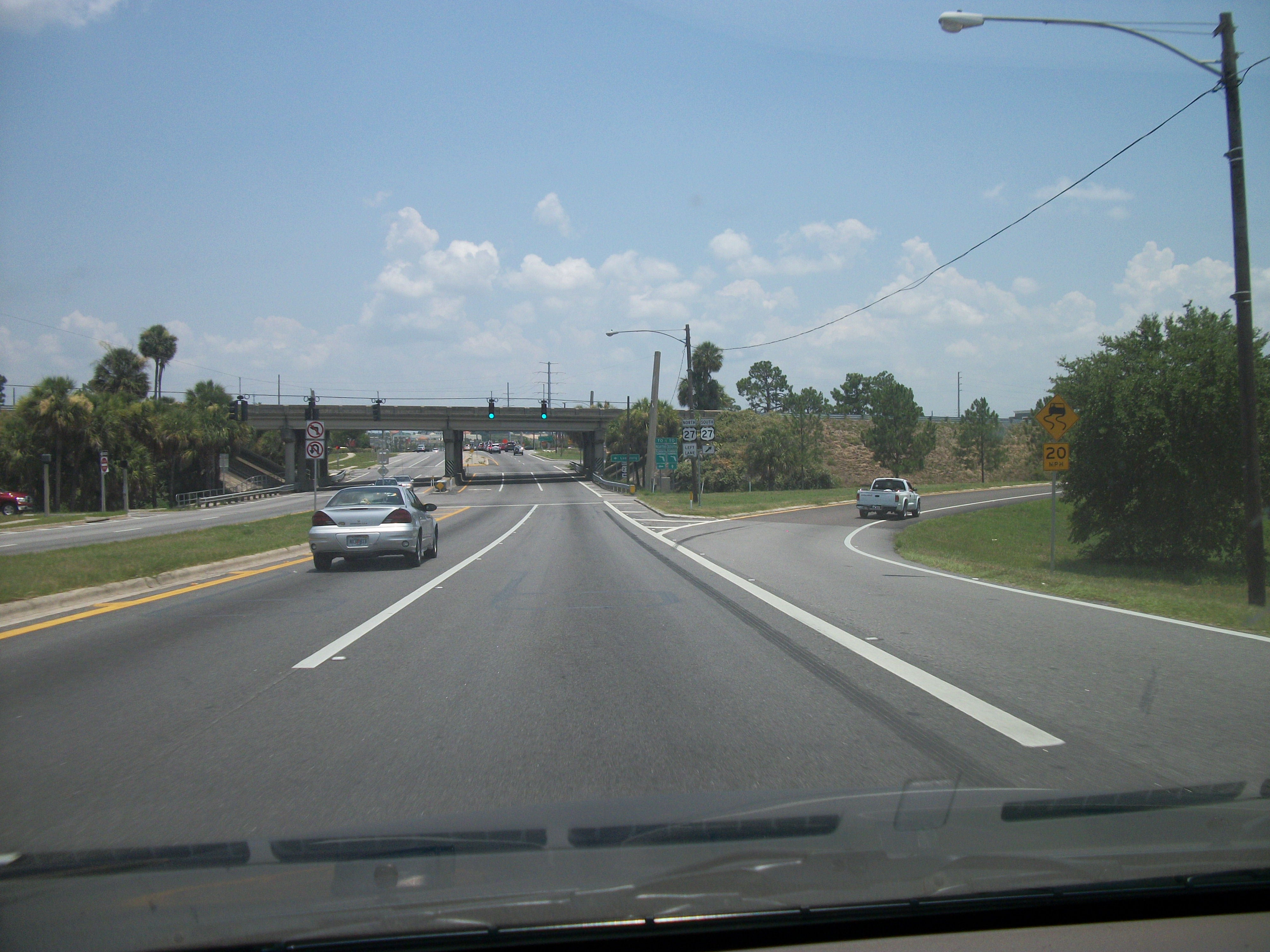 Eastbound Florida State Road 50 as it approaches the interchange with US 27 in Clermont, Florida.